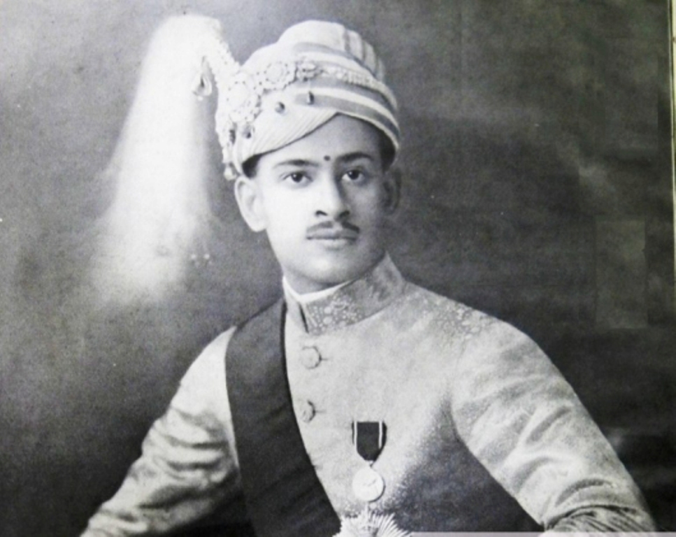 The picture taken in 1931 during the investiture of Maharajah Sree Chithira Thirunal Balarama Varma - the last Monarch of Travancore.